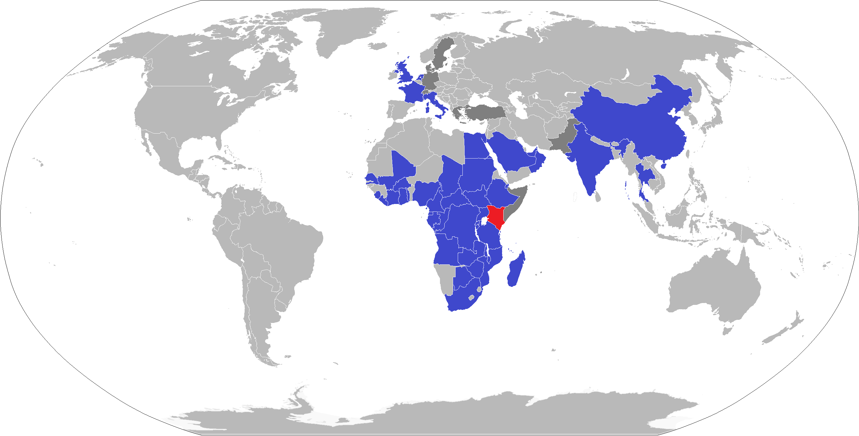 kenya airways destinations dark grey- former destinations blue- destinations red- kenya